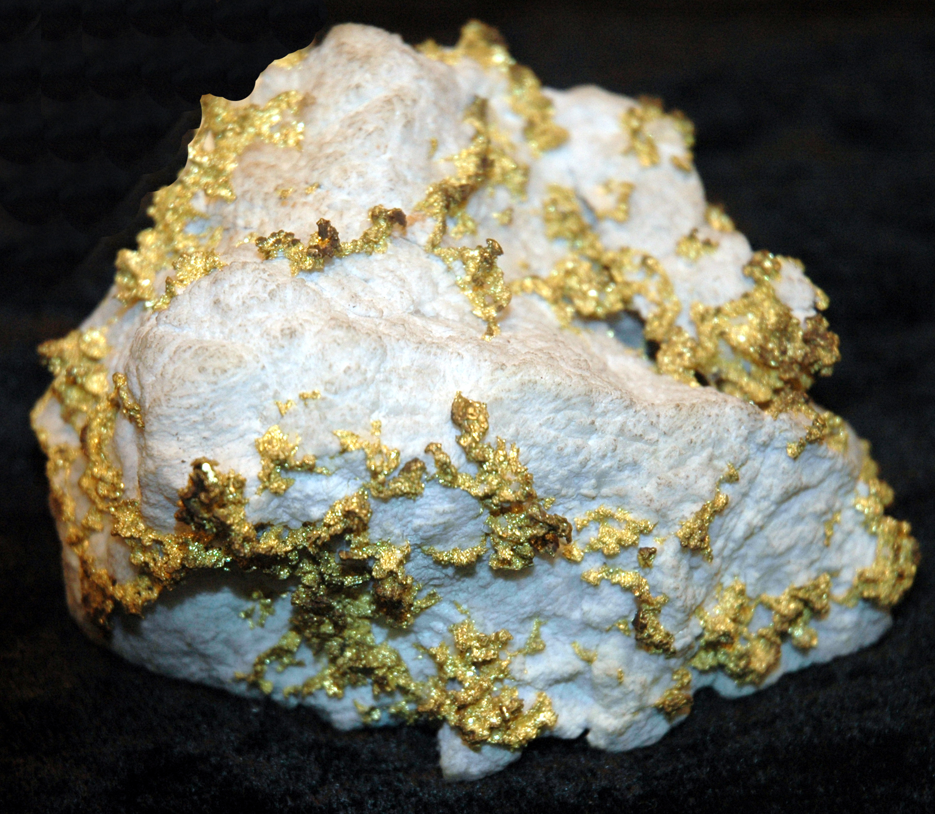 Hydrothermal quartz-gold vein sample (Cranbrook Institute of Science specimen, Bloomfield Hills, Michigan, USA) from an unspecified mine at or near Grass Valley, Nevada County, northeast-central California, USA. Geology - hydrothermal quartz-gold veins of the Mother Lode Gold Belt occur in the Melones Fault Zone (= boundary between the Foothills Terrane and the Don Pedro Terrane). To the east of the fault zone is Jurassic slates. To the west of the fault zone is serpentinite melange. Age - The Melones Fault Zone was active principally in the Late Jurassic and Early Cretaceous. Gold-quartz mineralization occurred during the late Early Cretaceous, at about 108 to 127 Ma.